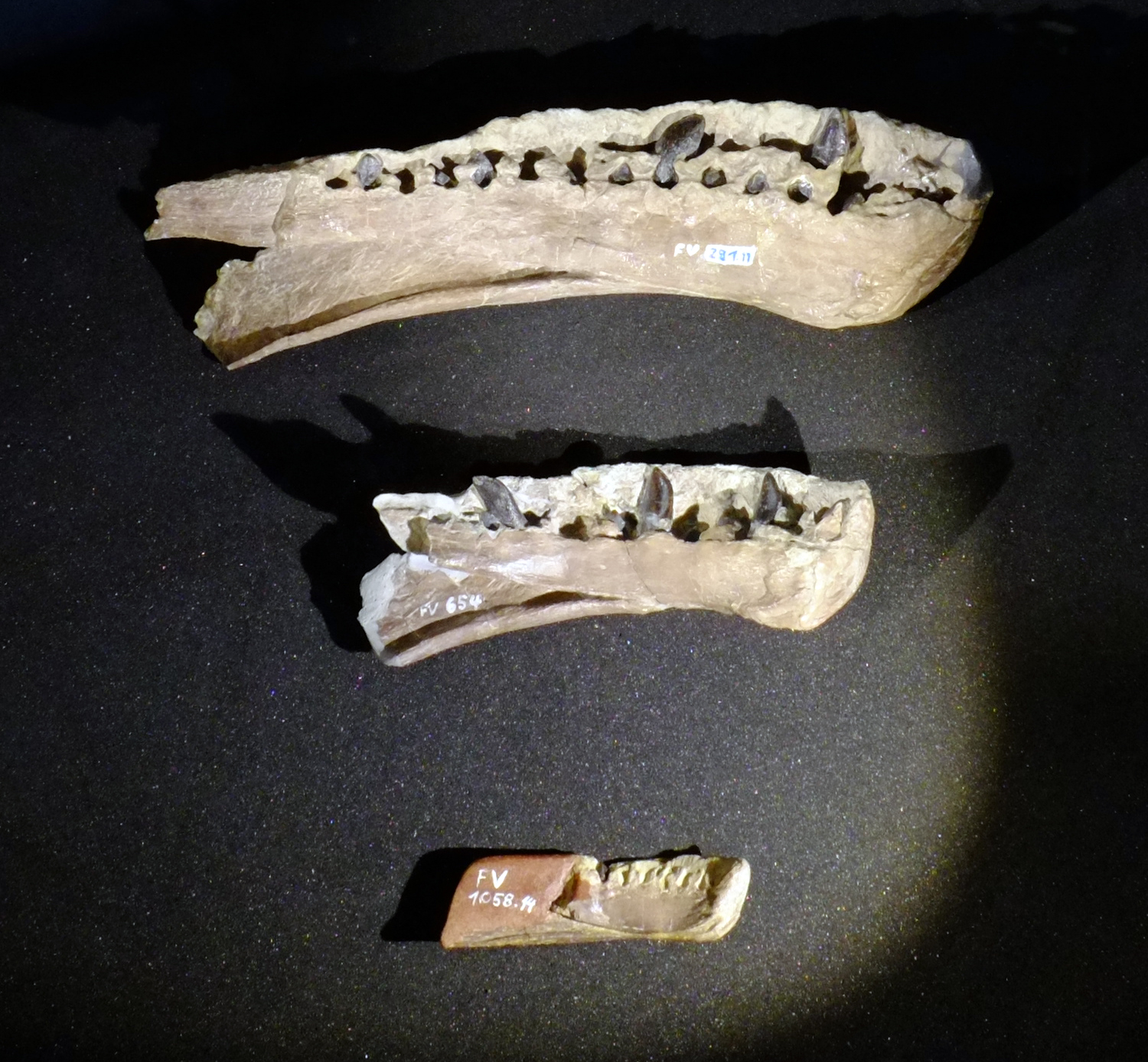 赤ちゃんから大人まで。